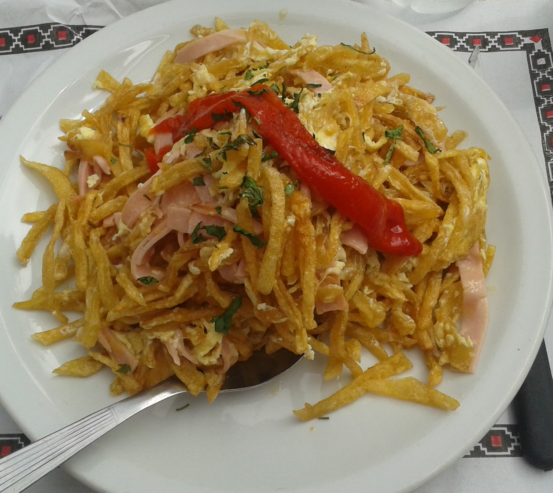 Revuelto Gramajo. Argentina.